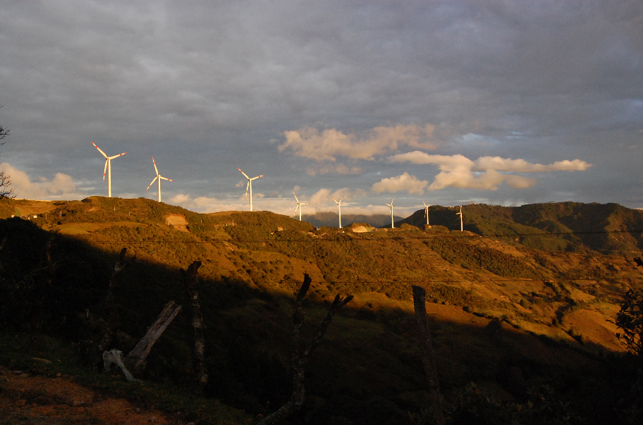 First wind power plant in Ecuador near Loja.